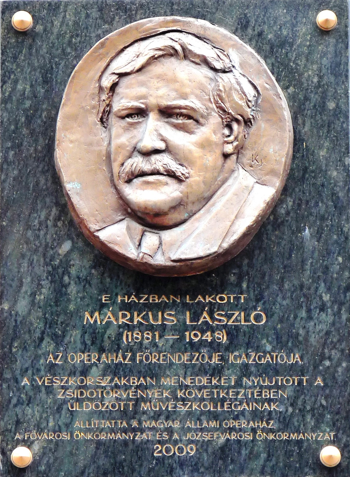 László Márkus commemorative plaque in Budapest District VIII, Somogyi Béla Street No 18. The bronze relief was created by the sculptor János Krasznai.